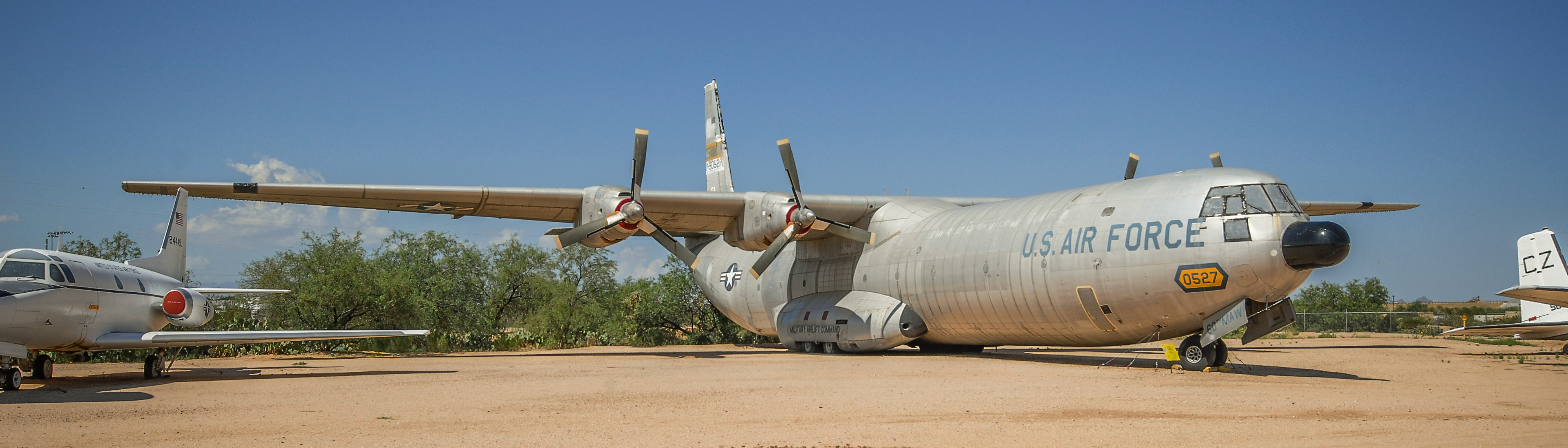 A Douglass C-133B turbo-prop cargo aircraft that has been on display at the Pima Air & Space Museum near Tucson, Arizona since 1971.